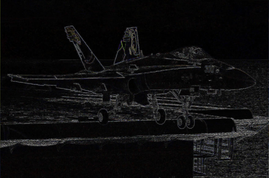 This is a rendition of Image:050817-N-3488C-028.jpg with the Roberts Cross technique applied through Xara X image editor.